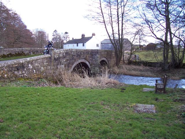 River bridge at Great Blencow. A misleading picture as it was a really nice sunny day just right for the motor cyclist.